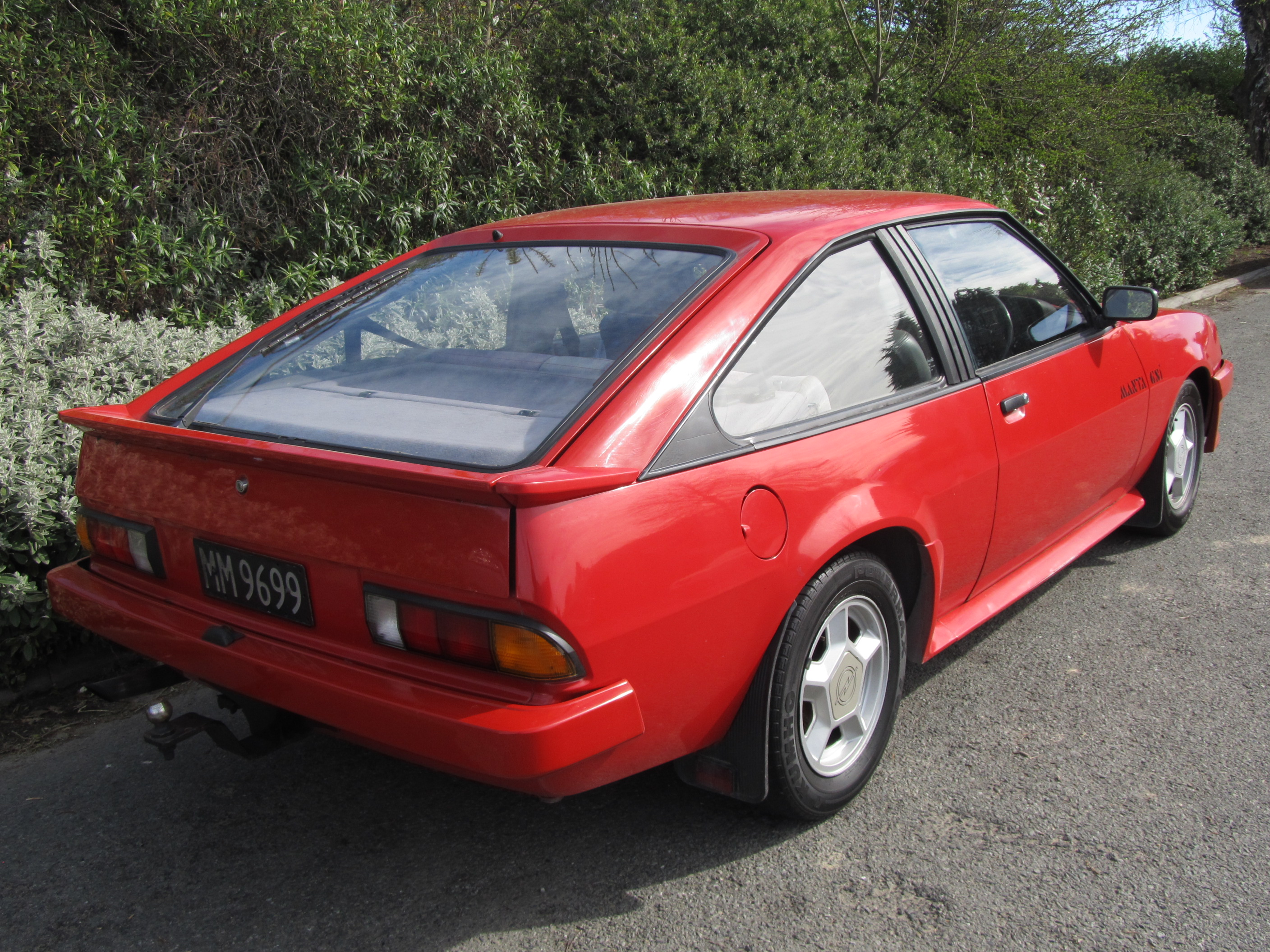 MM9699 A rear shot of the sparkling Manta I posted yesterday! This was an absolute stunner, and a true credit to the owner.